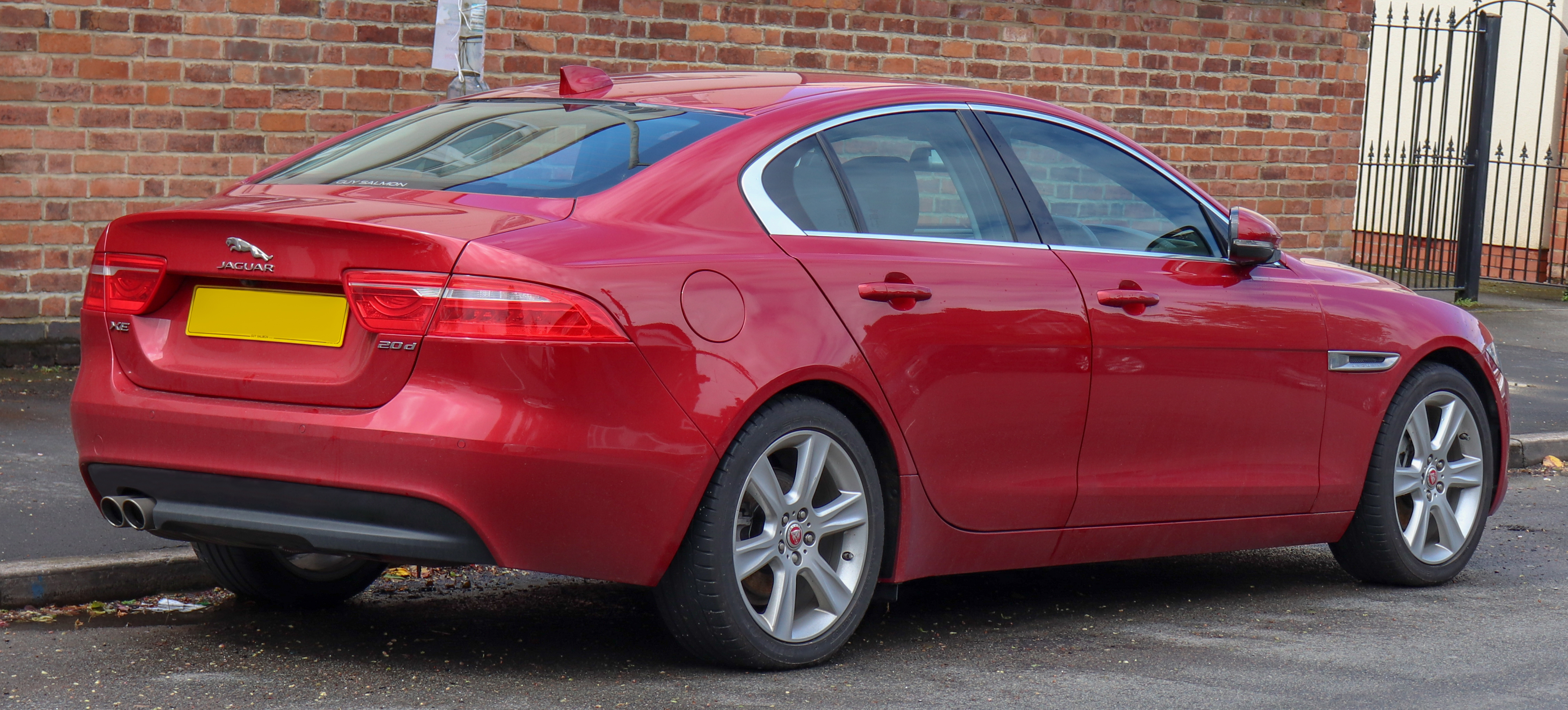 2017 Jaguar XE Portfolio Diesel Automatic 2.0 Rear Taken in Leamington Spa